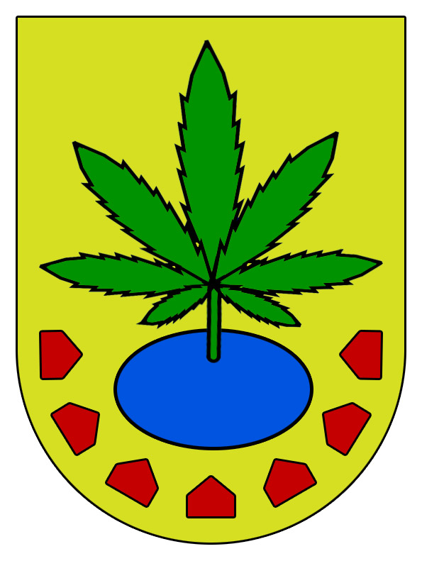 Coat of Arms of Hanfthal, Austria